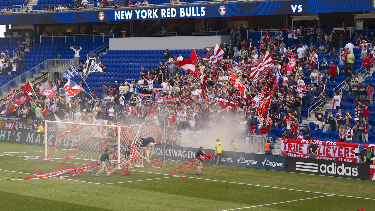 Field crew cleans up after celebration by Empire Supporters Club prior to the between New York and Philadelphia.